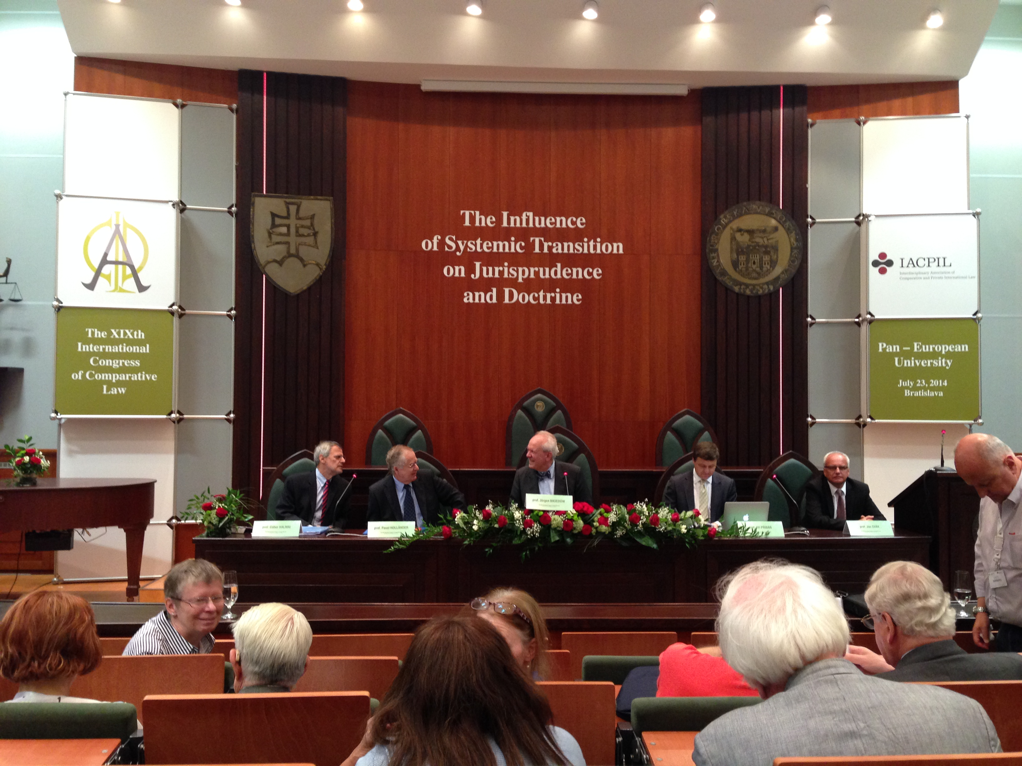 A special session of the World Congress of Comparative Law entitled "The Influence of Systemic Transition on Jurisprudence and Doctrine" taking place in an auditorium at the Pan-European University in Bratislava, Slovakia.